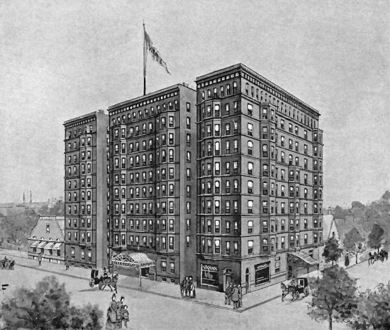 The 400 room hotel was on the corner of Rush and Ohio street in Chicago, named for the owner's home state of Virginia. Leander James McCormick (1819–1900) ran manufacturing from 1849 to 1879 at the company that would become International Harvester.